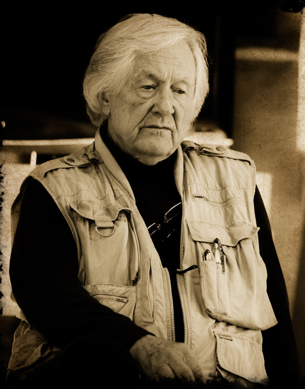 Photo of Gerry Spence, famous lawyer and former Prosecuting Attorney of Fremont County, Wyoming (1954-1962).